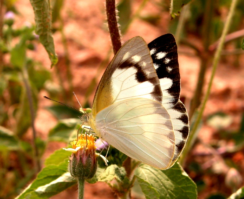 Common Albatross , Appias albina Female Photographed at Bangalore, India.